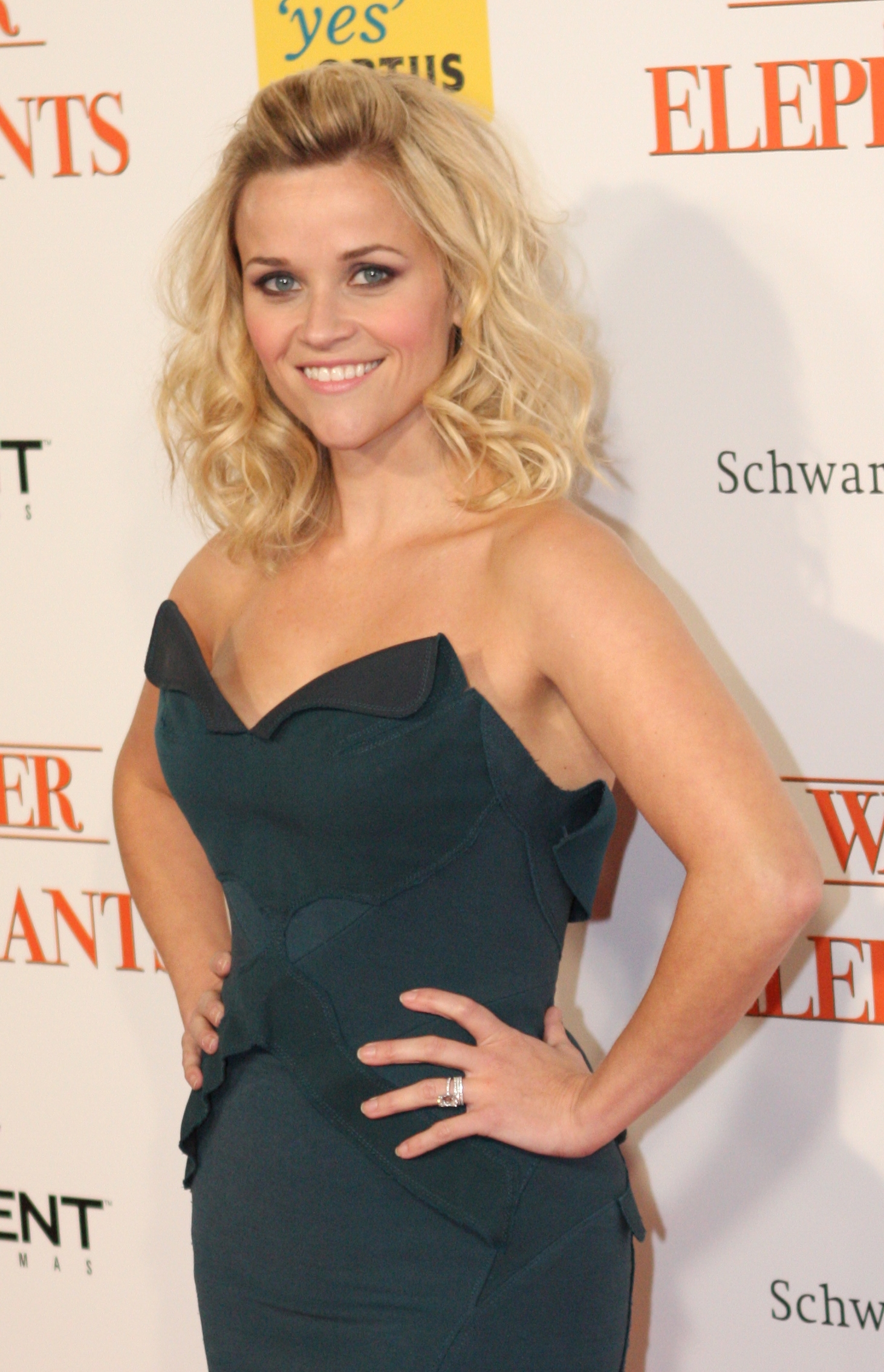 Reese Witherspoon at the premiere for Water for Elephants in May 2011